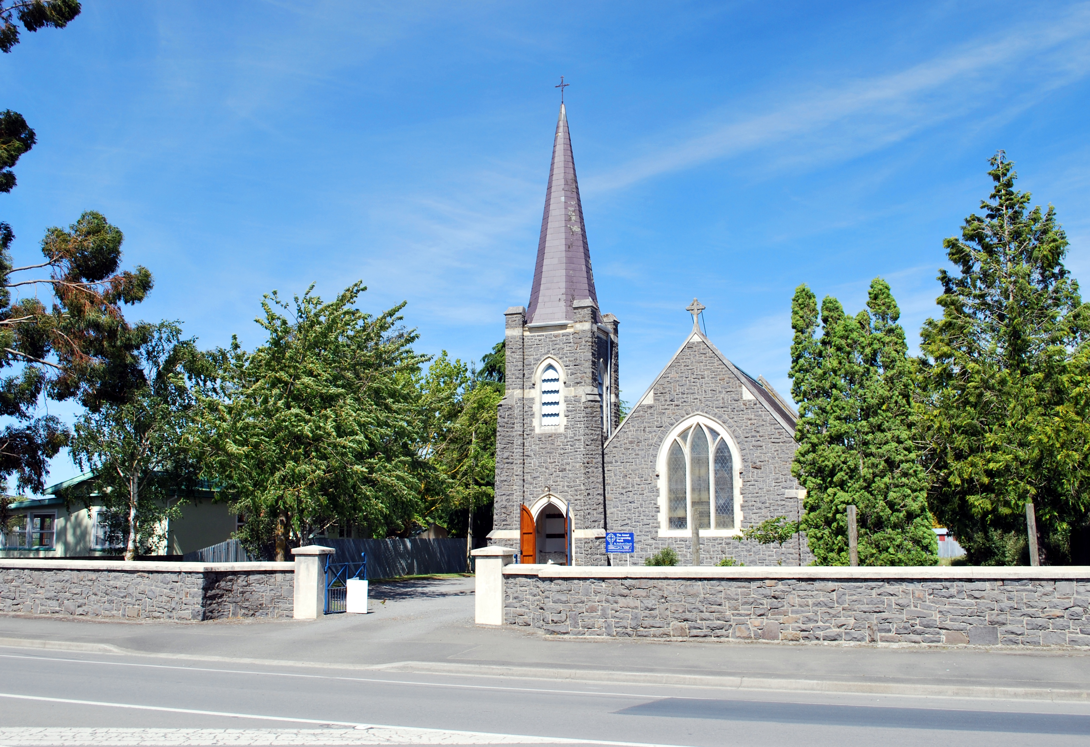 St Andrew's Amuri Co-operating Parish church at Culverden, New Zealand